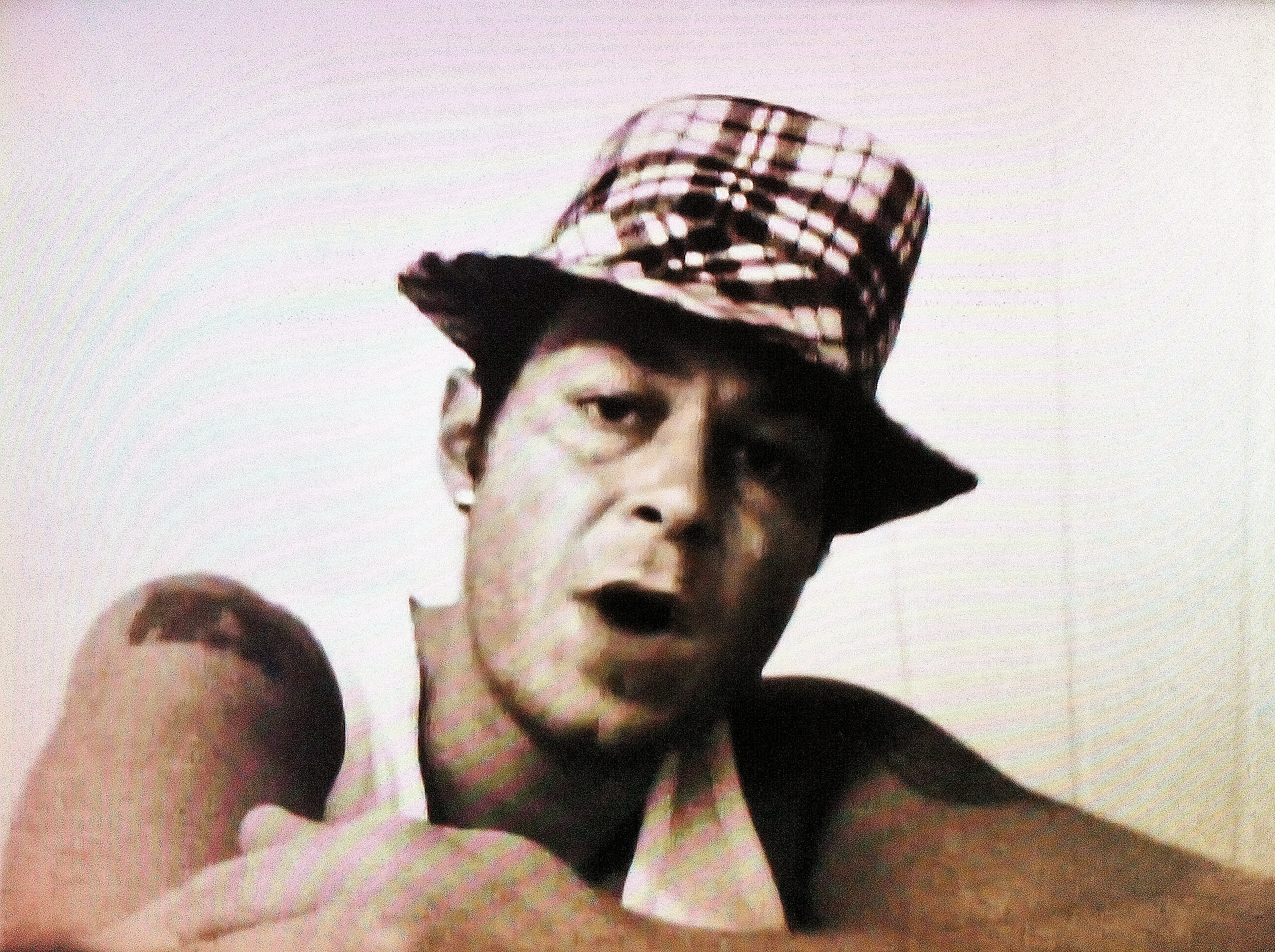 Erik West - Darling Daizy